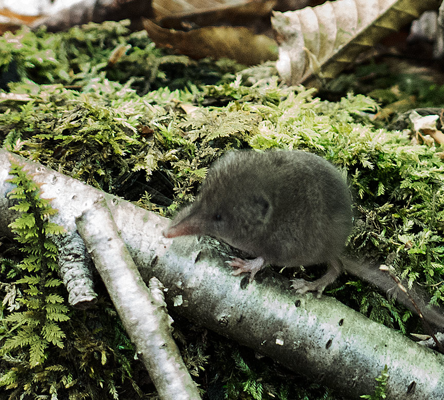 North American Least Shrew - Monroe State Forest, MA